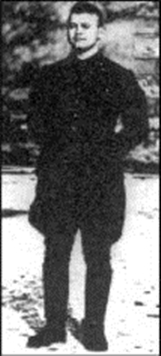 SS-Obersturmführer August Häfner, born on 31 January 1912 in Mellingen (Switzerland), died in June 1999 in Germany.